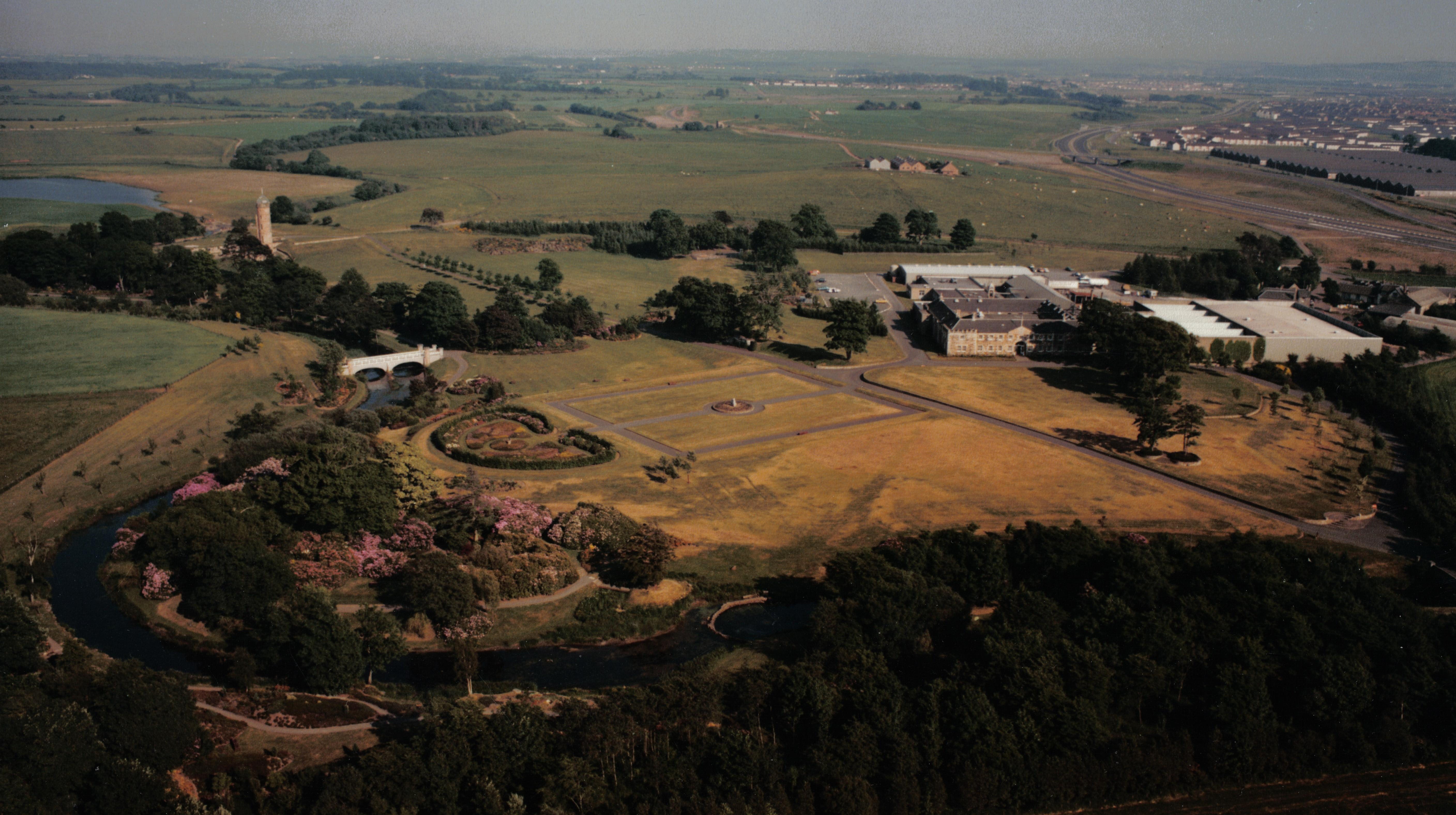 An Aerial view of Eglinton Country Park, North Ayrshire, Scotland HMS Gannet - helicopter flight photograph.